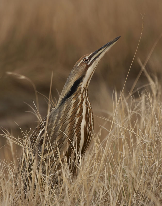 American Bittern (Botaurus lentiginosus) attempting to hide. Taken at Quivira National Wildlife Refuge.